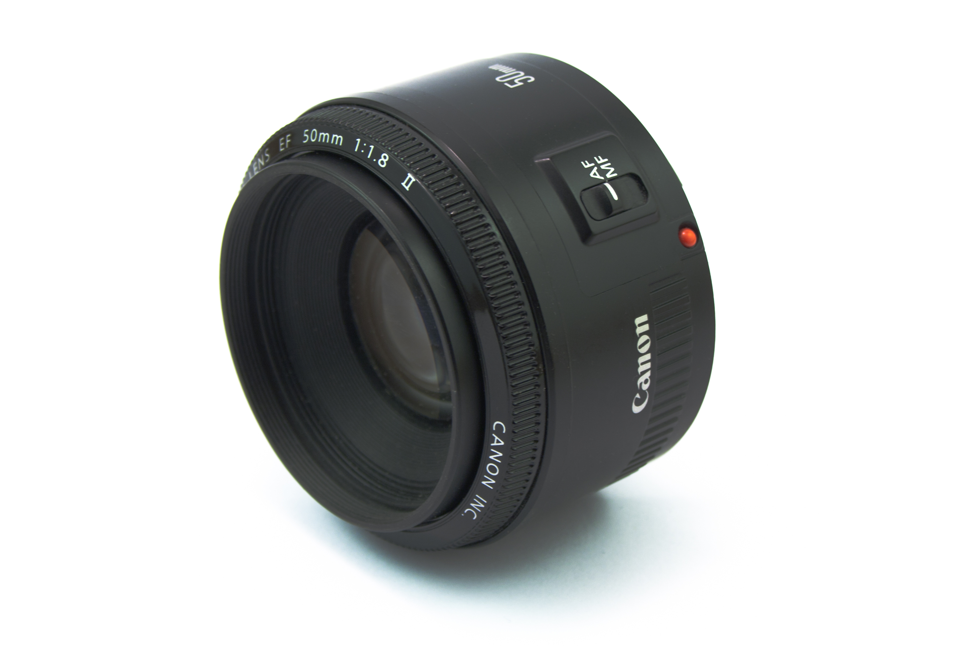 Canon EF 50mm f 1:1.8 II